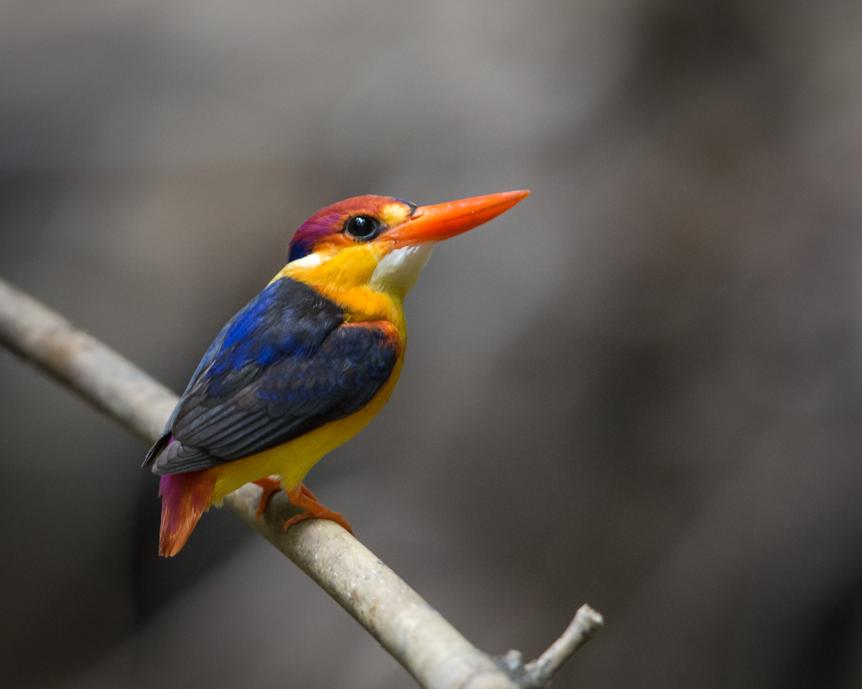 Oriental Dwarf Kingfisher (Ceyx erithacus) at Kaeng Krachan National Park, Phetchaburi, ThailandBahasa Indonesia: Udang api (Ceyx erithacus) di Taman Nasional Kaeng Krachan, Phetchaburi, Thailand